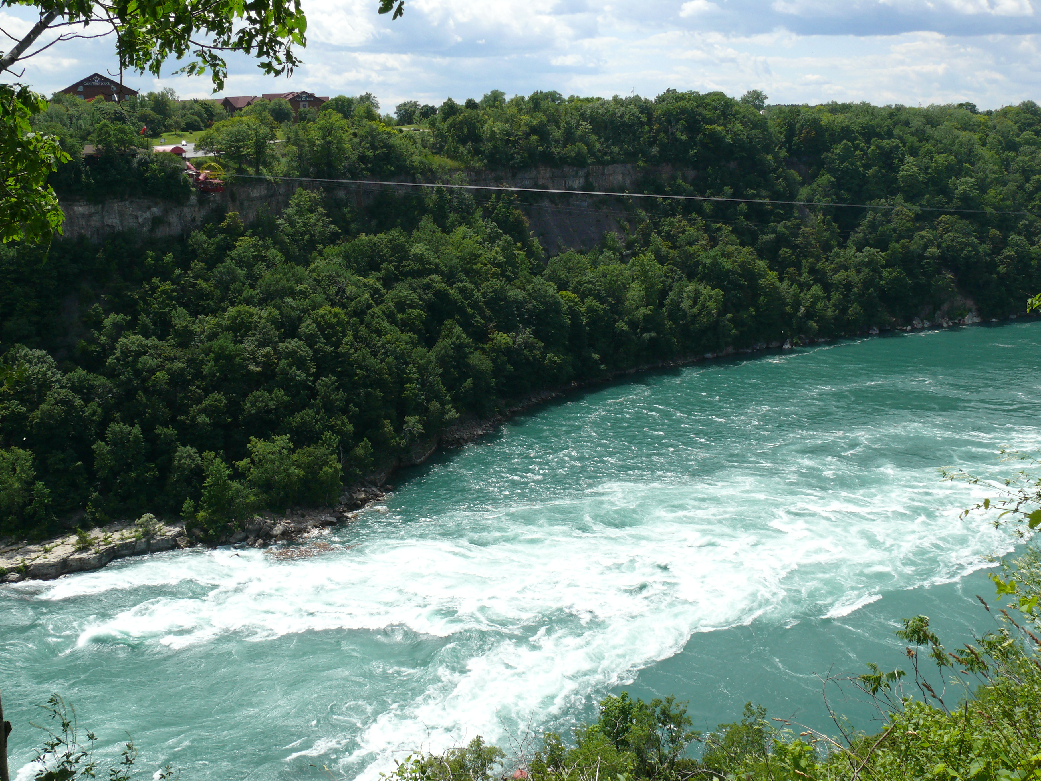 Whirlpool on the Niagara River, just past Niagara falls